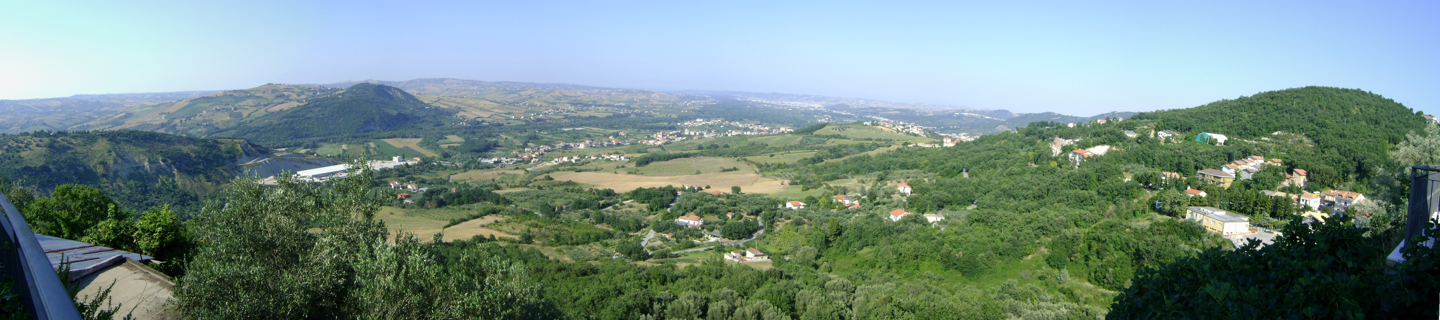 The valleys of the Aventino (foreground) and Sangro (in background right) seen from Altino, province of Chieti, Abruzzo